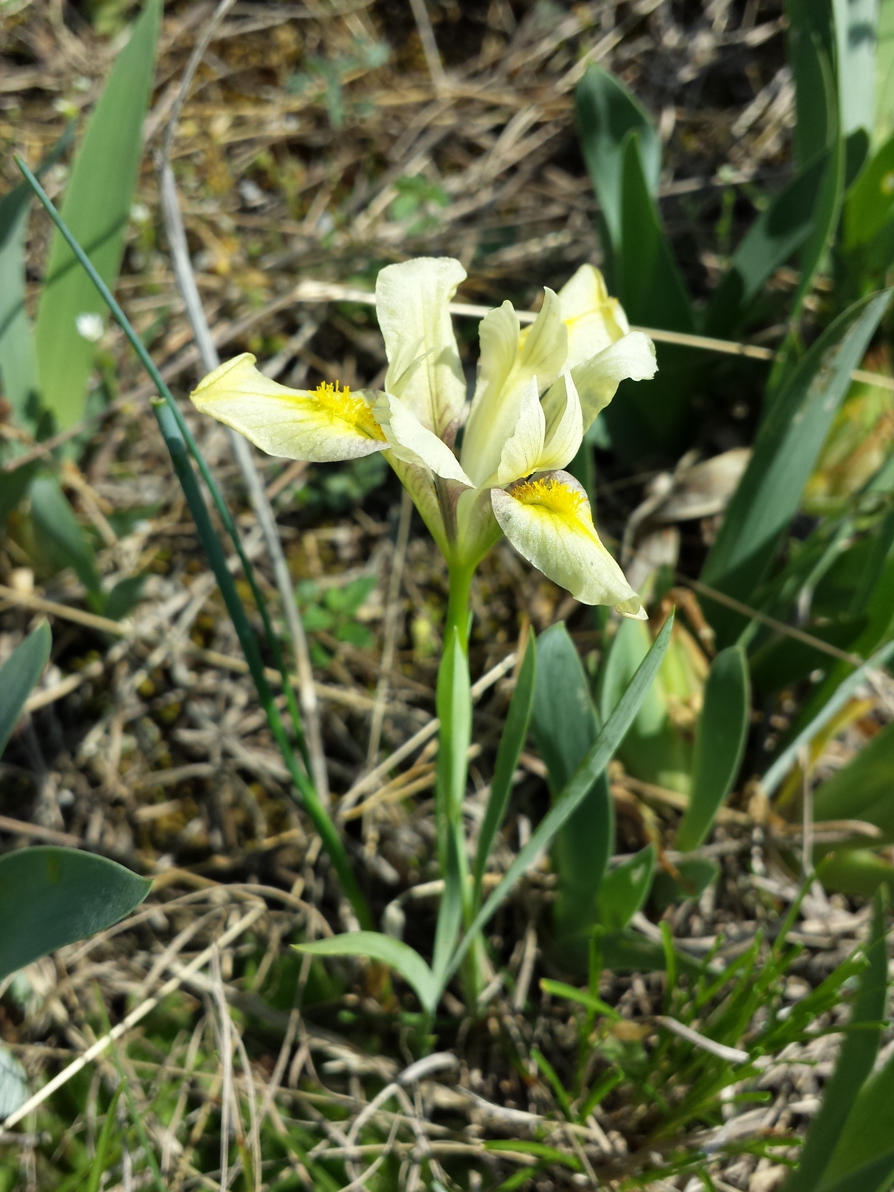 Habitus (the wider leaves which can be seen as well belong to Iris pumila!) Taxon: Iris humilis subsp. arenaria (sensu Fischer et al. EfÖLS 2008 ISBN 978-3-85474-187-9) Location: Svatý kopeček, Mikulov, Jihomoravský kraj, Czech Republic - 363 m a.s.l. Habitat: rock steppe (lime rock)